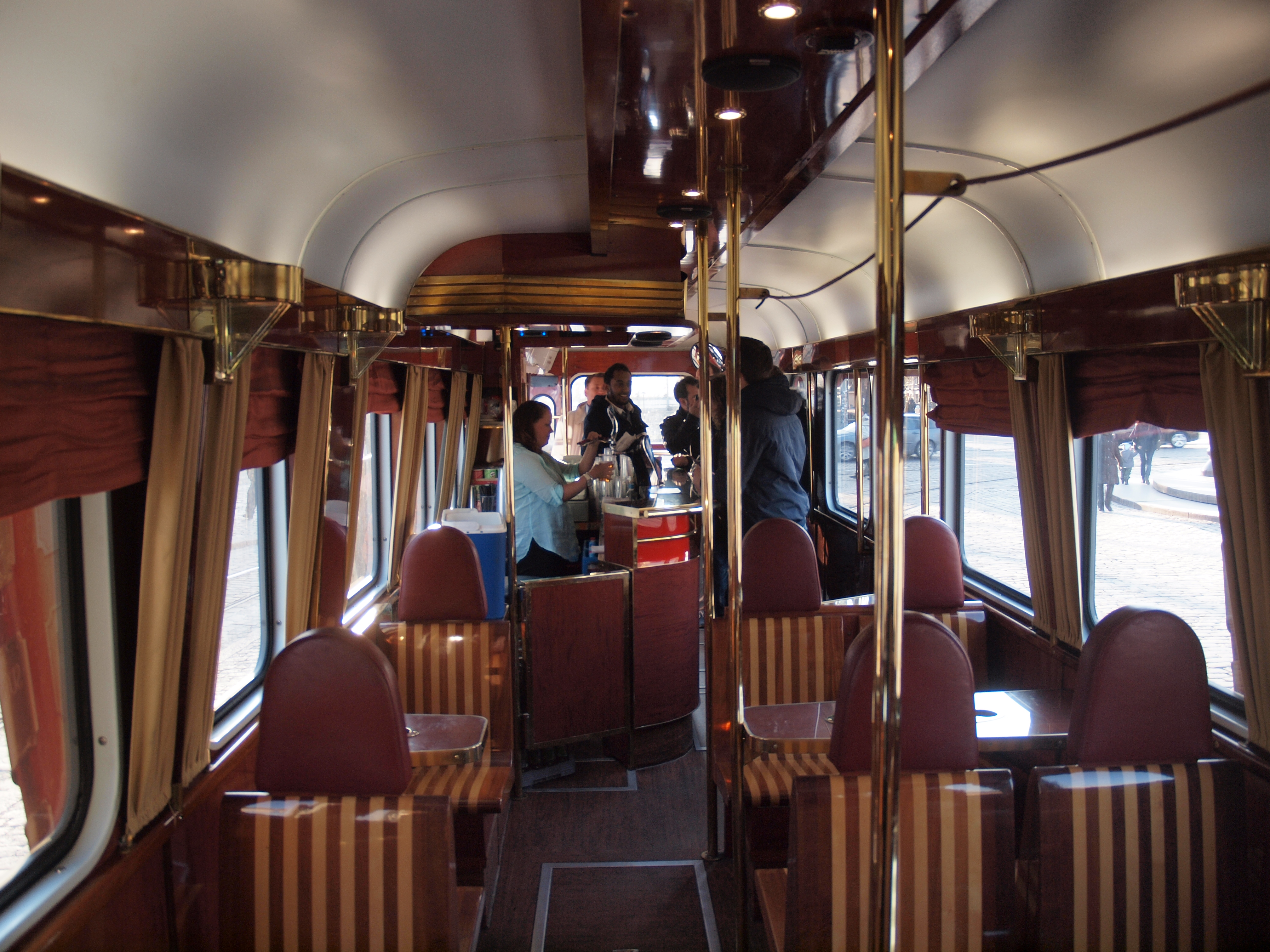 The interior of the Spårakoff pub tram in Helsinki, Finland, looking backwards towards the bar.